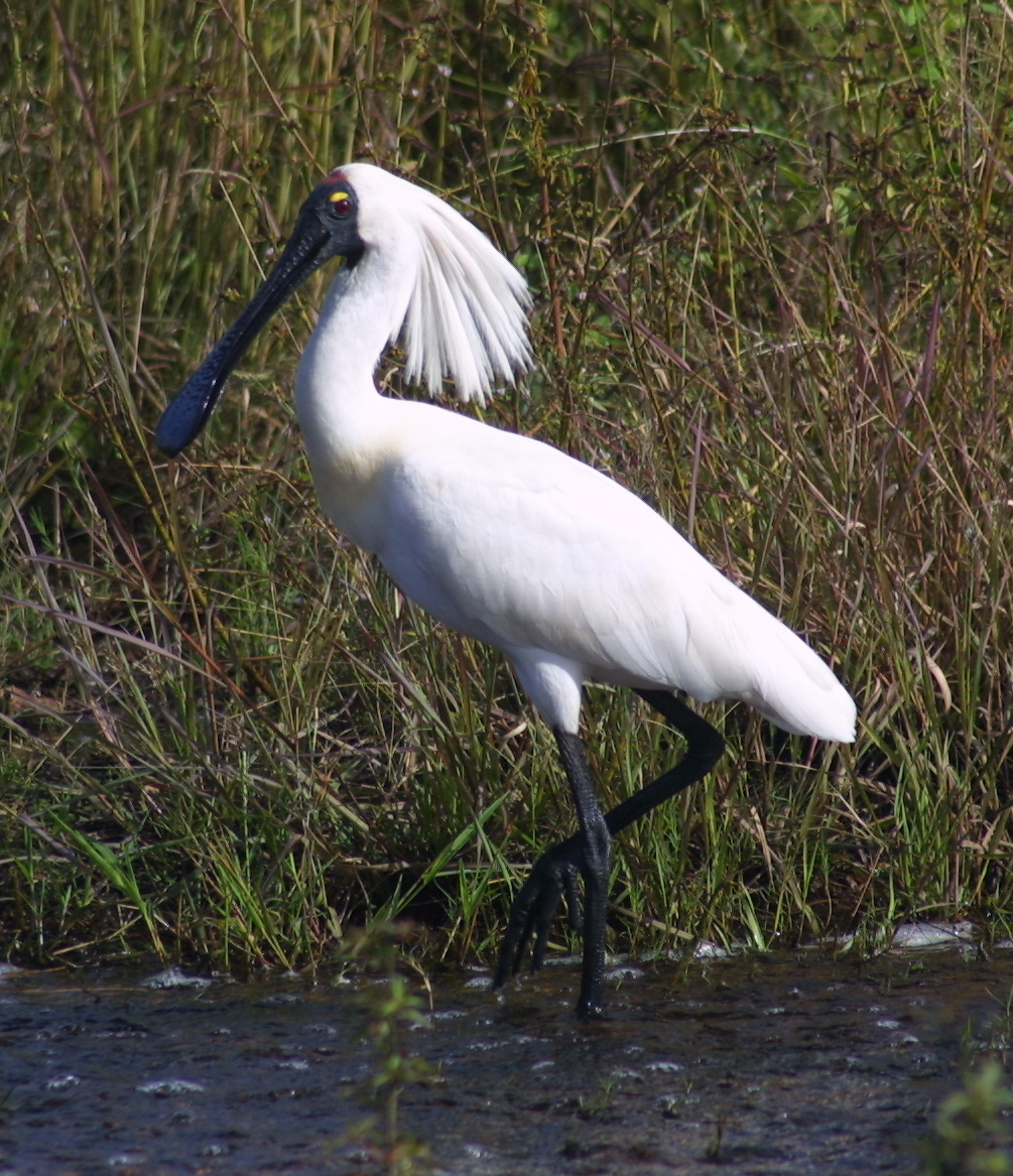 Royal Spoonbill (Platalea regia) at Fogg Dam Conservation Reserve, Australia.